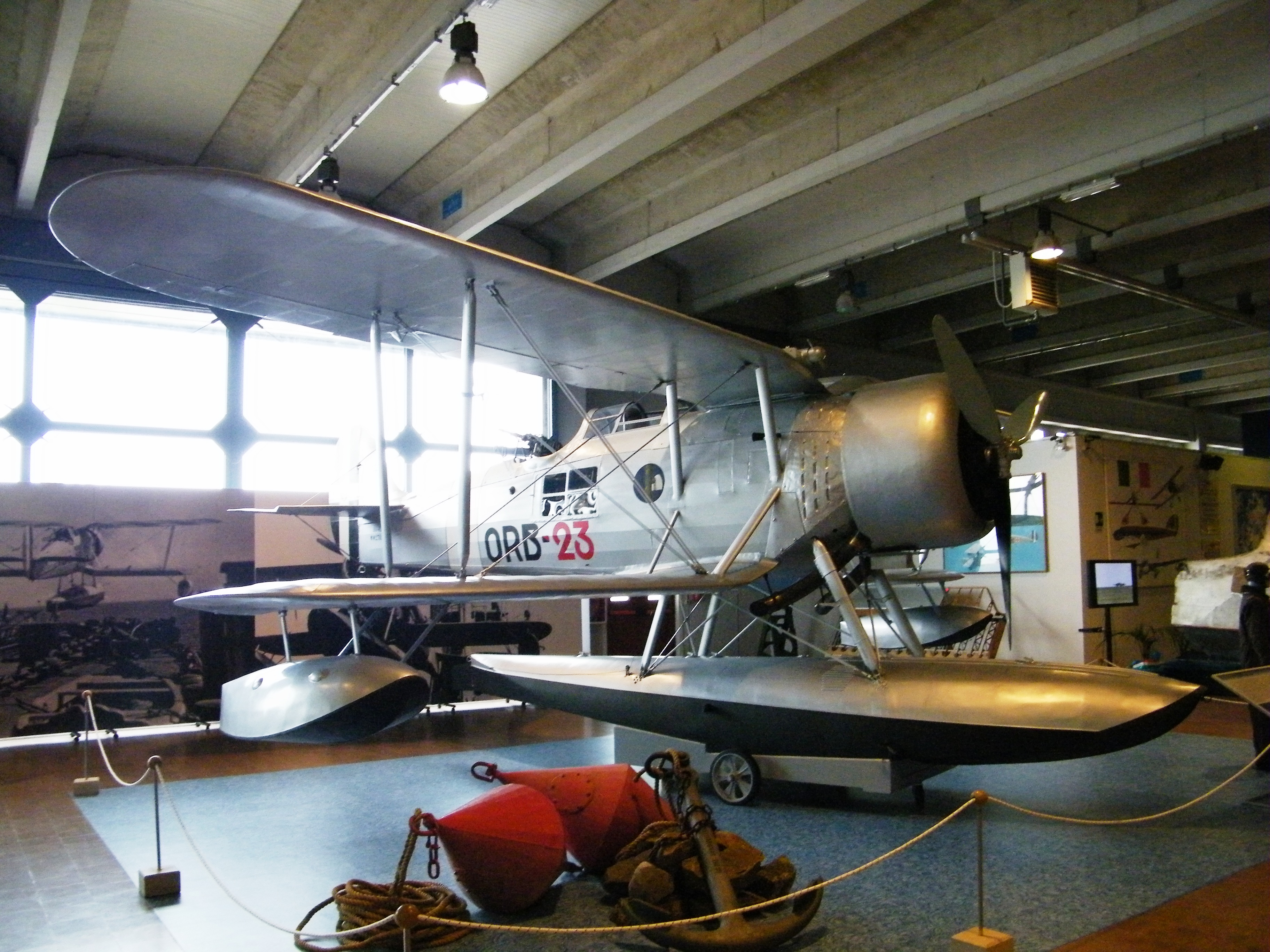 IMAM Ro.43 at the Italian Air Force Museum, Vigna di Valle in 2012